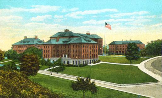 State Normal School, Fitchburg, MA; from a c. 1920 postcard. It is now Fitchburg State College.